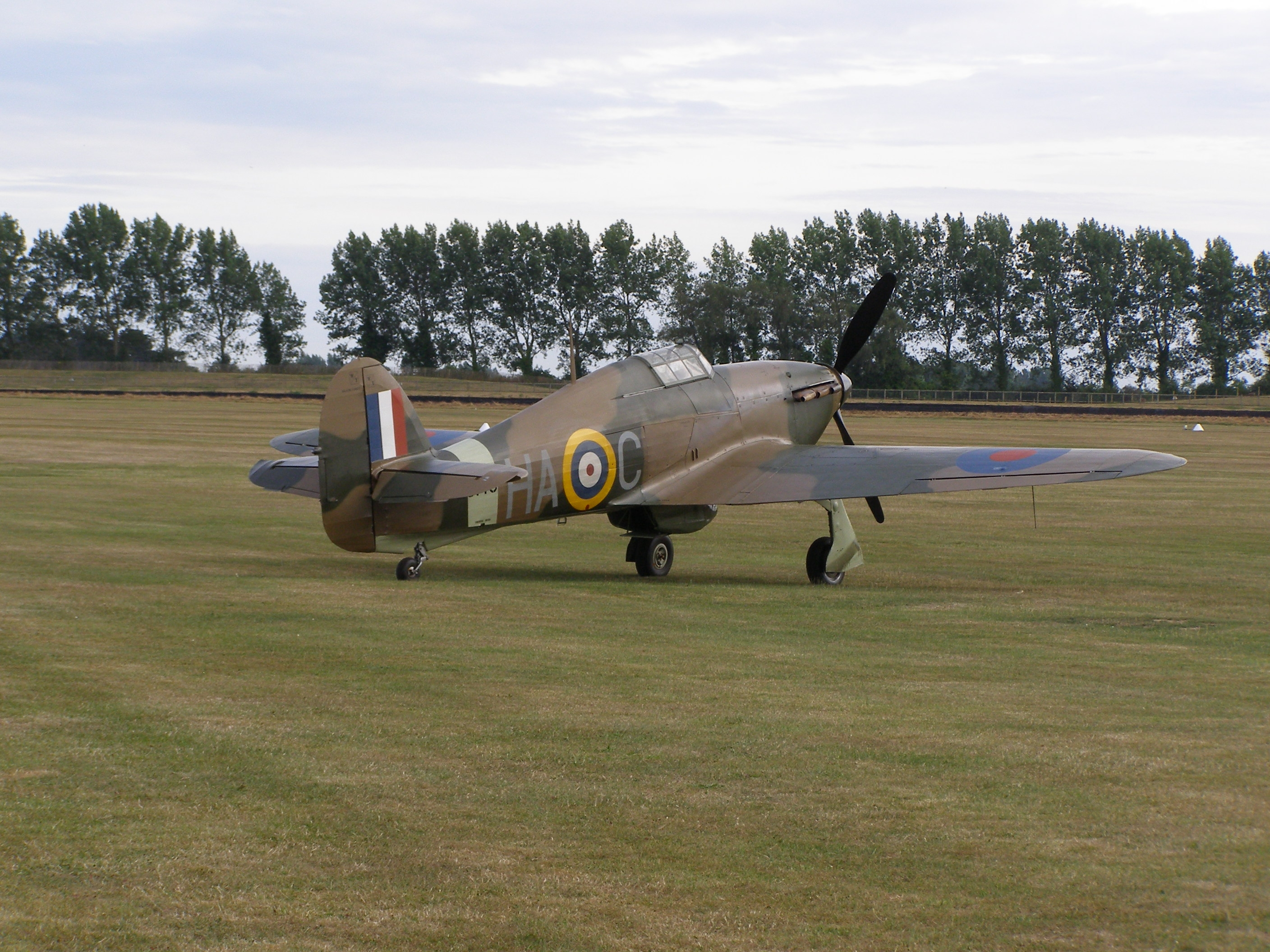 Canadian-built Hawker Hurricane XII (Registration G-HURI painted as Z5140) at Goodwood, England in July 2006.